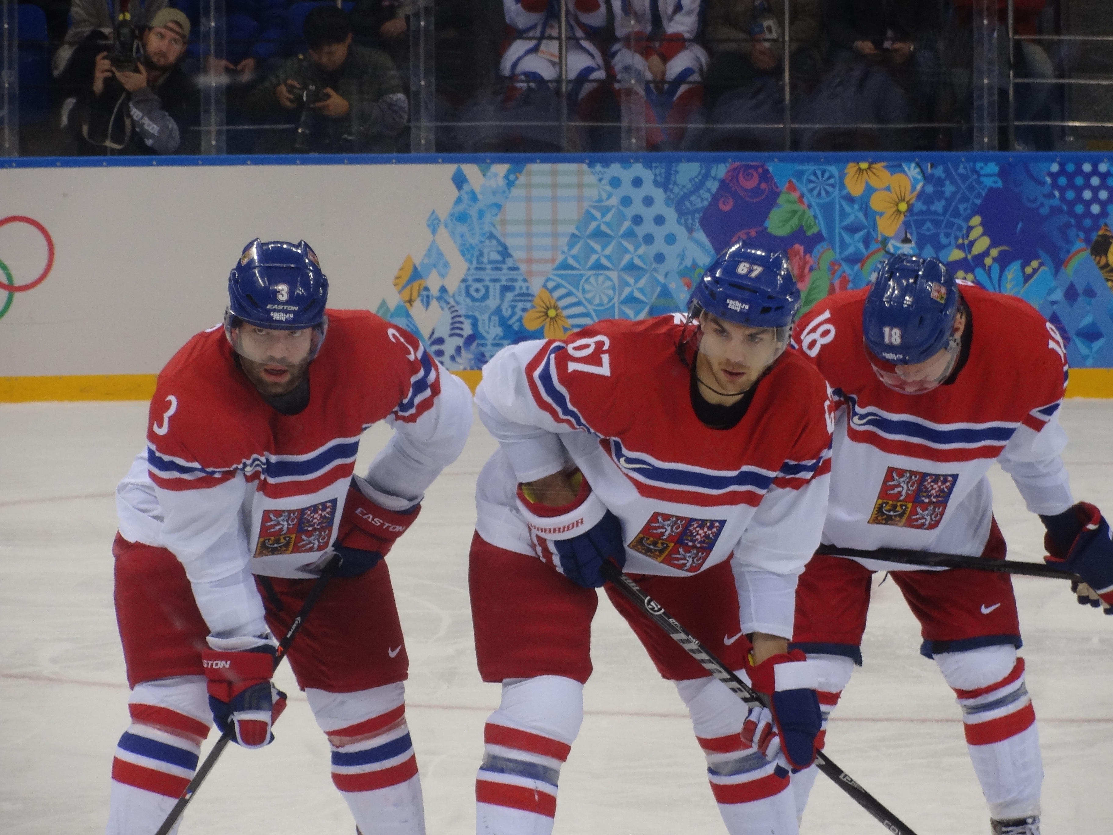 Radko Gudas, Ondřej Palát and Michael Frolík, 2014 Winter Olympics